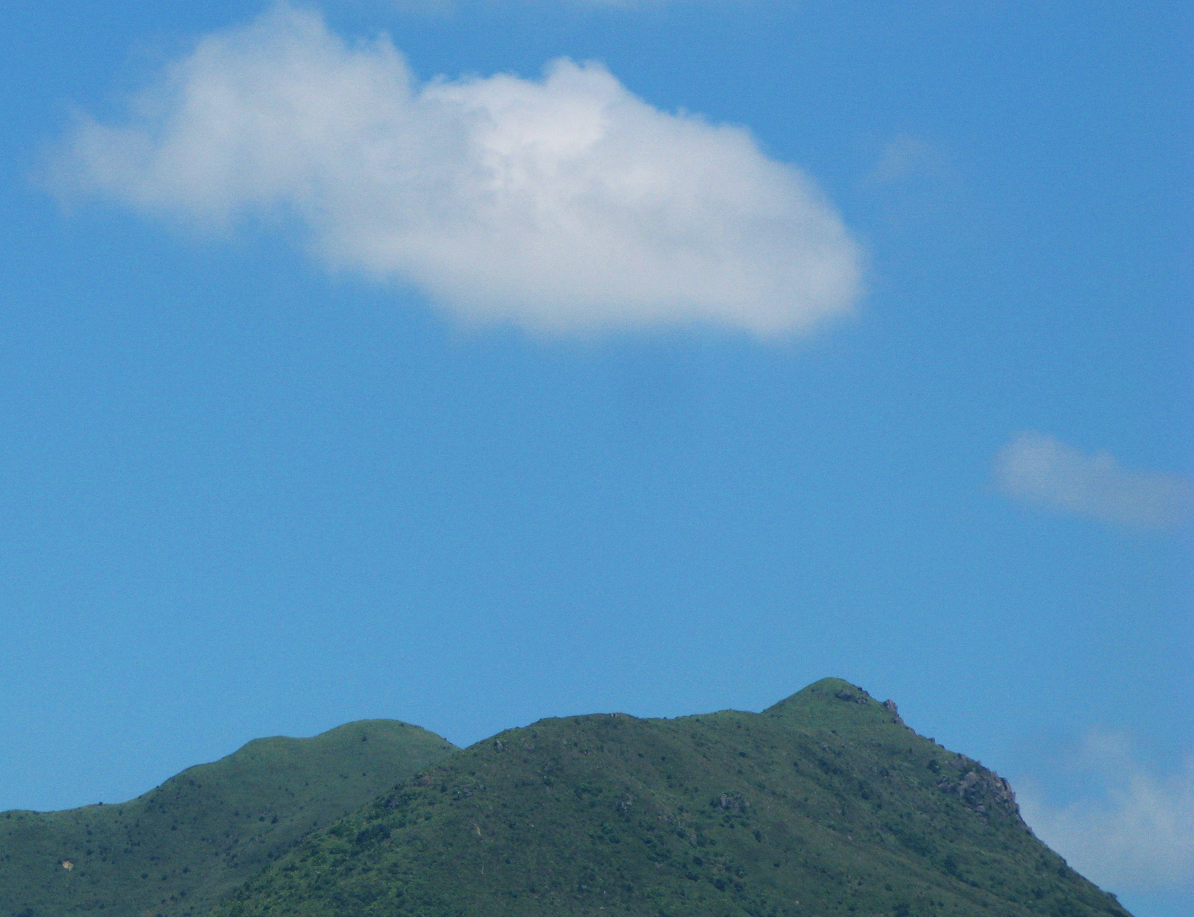 Buffalo Hill (Hong Kong) as seen from Shatin, Hong Kong